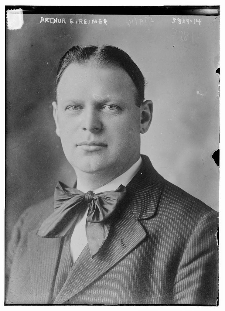 Arthur Elmer Reimer (1882–1969) circa 1916